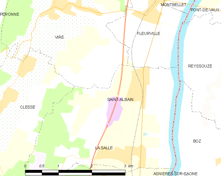 Map of French municipality